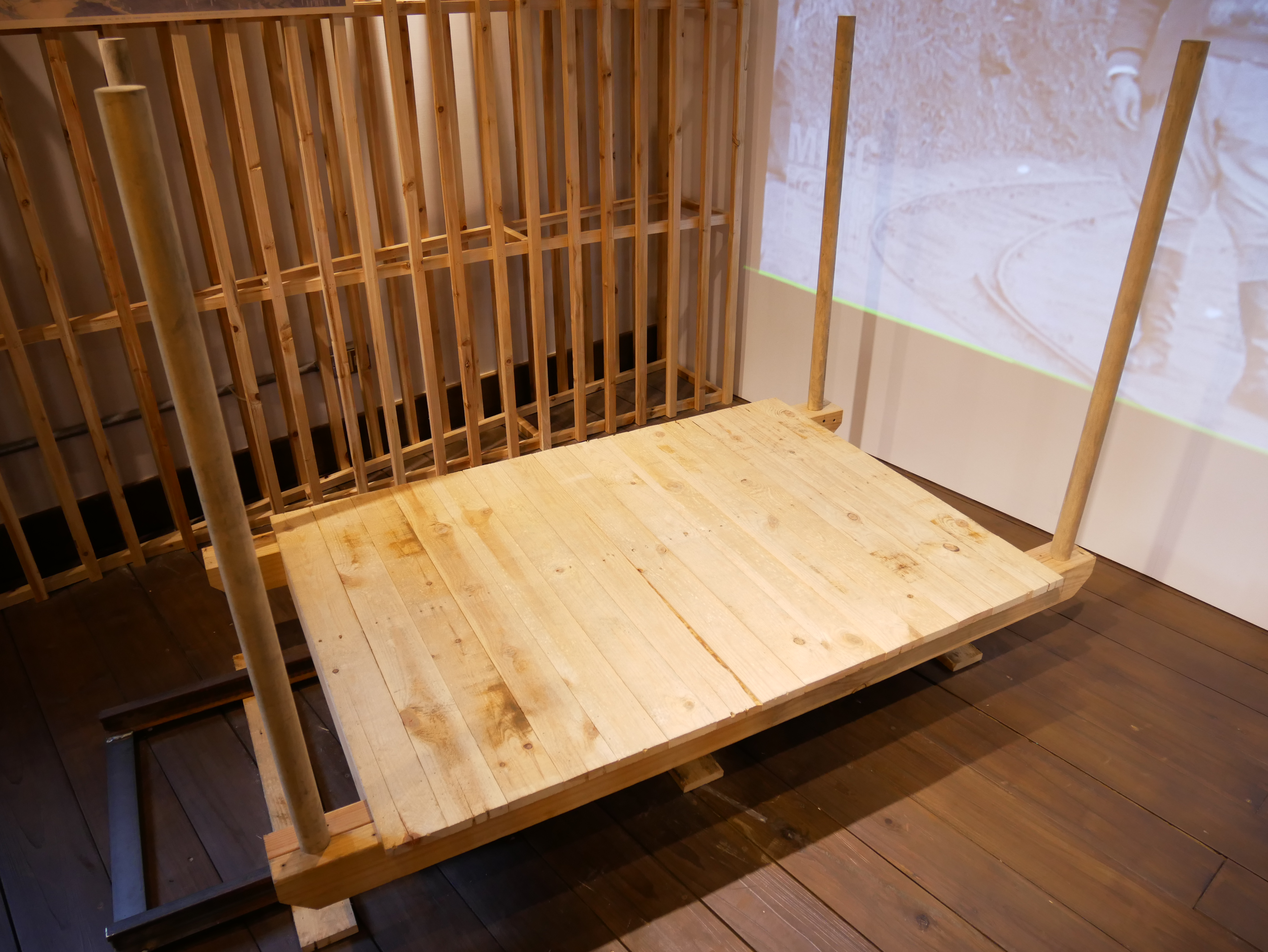 台車模型，臺北市中正區城內次分區光復里